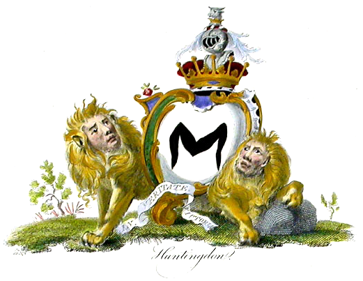 Earl of Huntingdon coat of arms(House of Hastings)